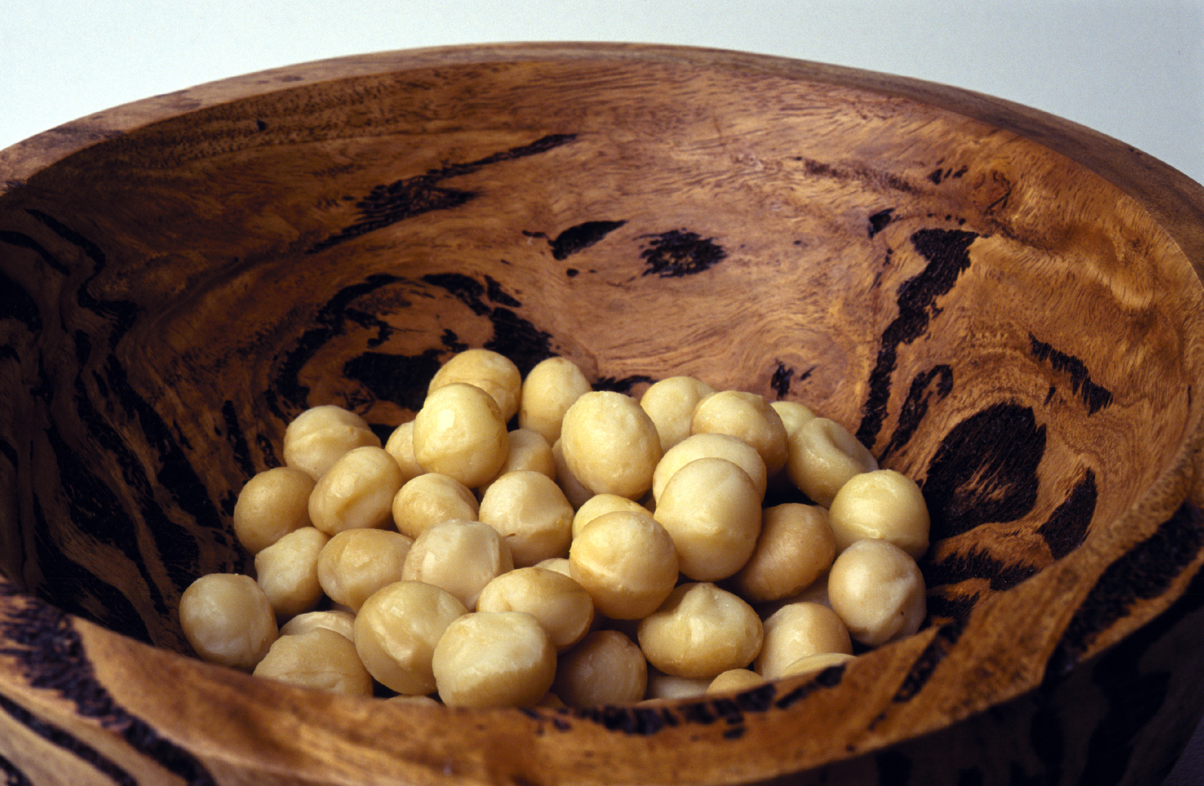 CSIRO researchers have measured consumer preferences and related them to the source and treatment of nuts with the goal of providing the Australian macadamia industry with information to help it produce nuts that are more appealing to consumers. Research showed that the preferred macadamia was large and fresh, with a strong roasted flavour but still light in colour.